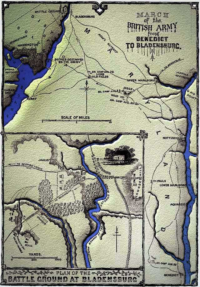 Colorized drawing of the British march from the coastal town of Benedict, Maryland, to Bladensburg, including the battleground map inset of the Bladensburg campaign from Lossing's Pictorial Field Book of the War of 1812.